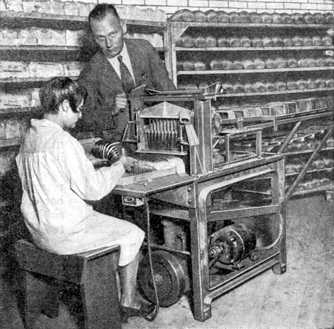 1930 photograph from the magazine Popular Science with the caption, "The new electric bread slicing machine at work in a St. Louis, Mo. bakery. The operator is holding one of the sliced loaves." The accompanying article does not identify the bakery but this may have been the machine invented by Otto Frederick Rohwedder of Davenport, whose 2nd slicing machine was purchased by Gustav Papendick of Papendick Bakery Company in St. Louis who worked out a process to wrap the sliced loaf automatically.